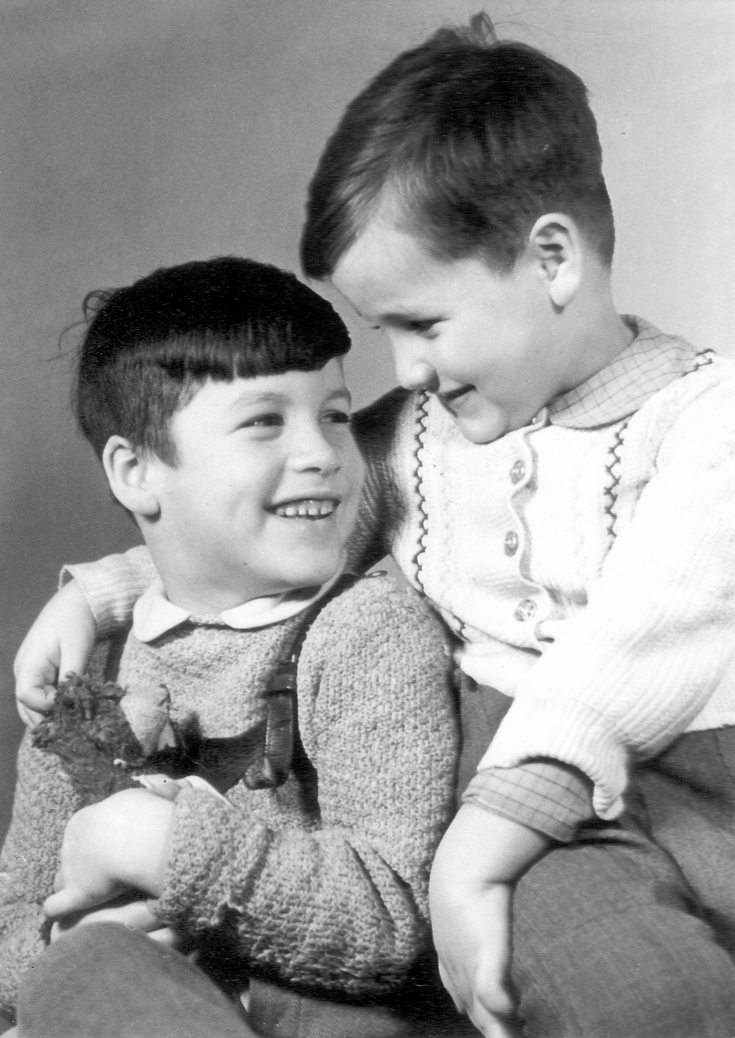 Child picture of the german actors Raimund (left) and Michael Krone (right)